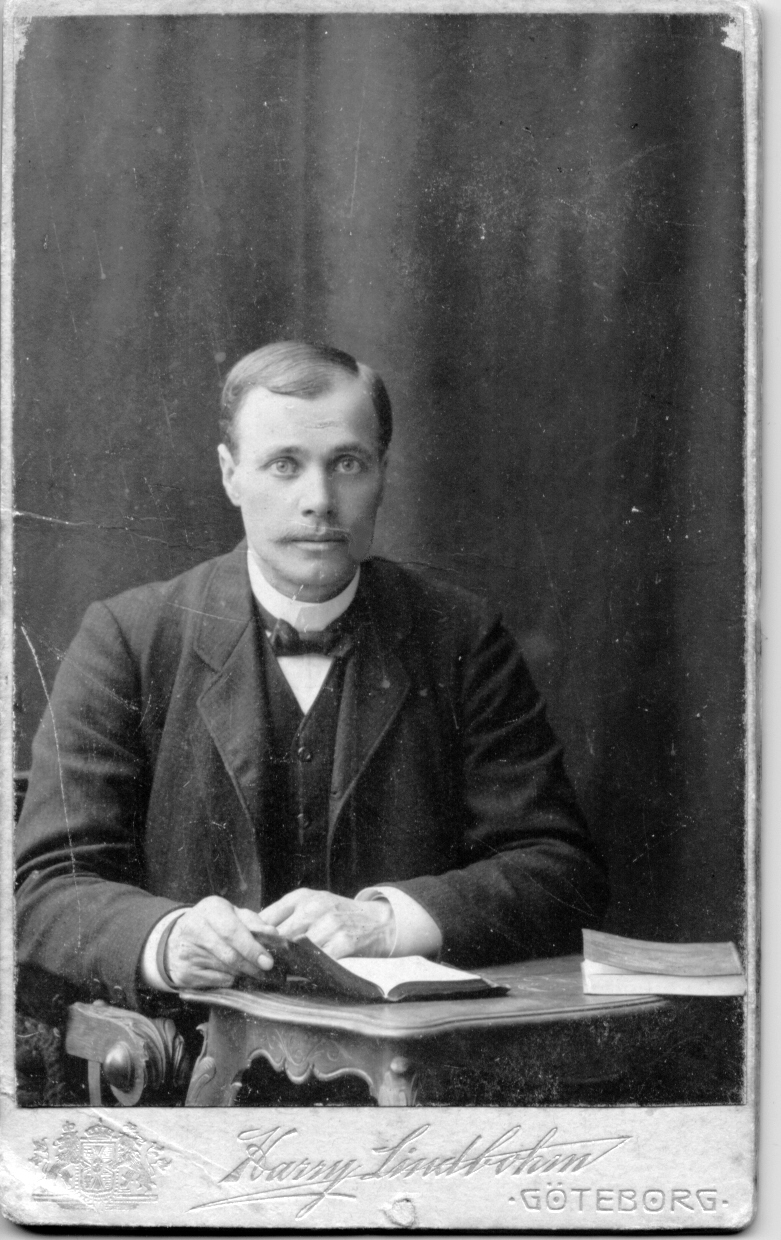 Photo of Andrew Johnsson-Ek (1878-1965)